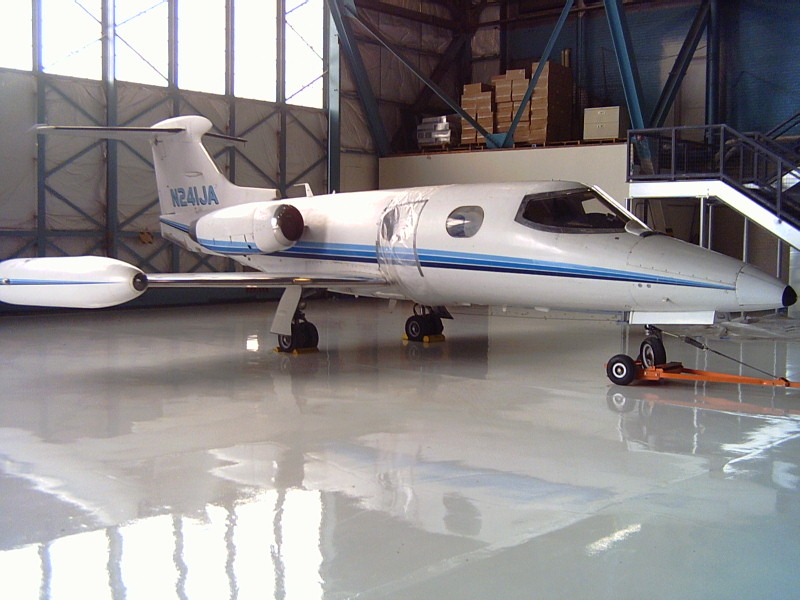 Learjet 24 s/n 131, Wings Over the Rockies Air and Space Museum, hangar photo during aircraft repositioning. Denver CO, 4 April 2011.